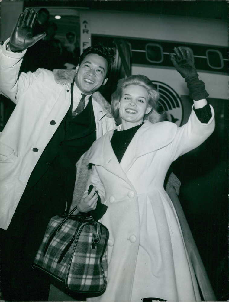 Carroll Baker with James Shigeta, 1961